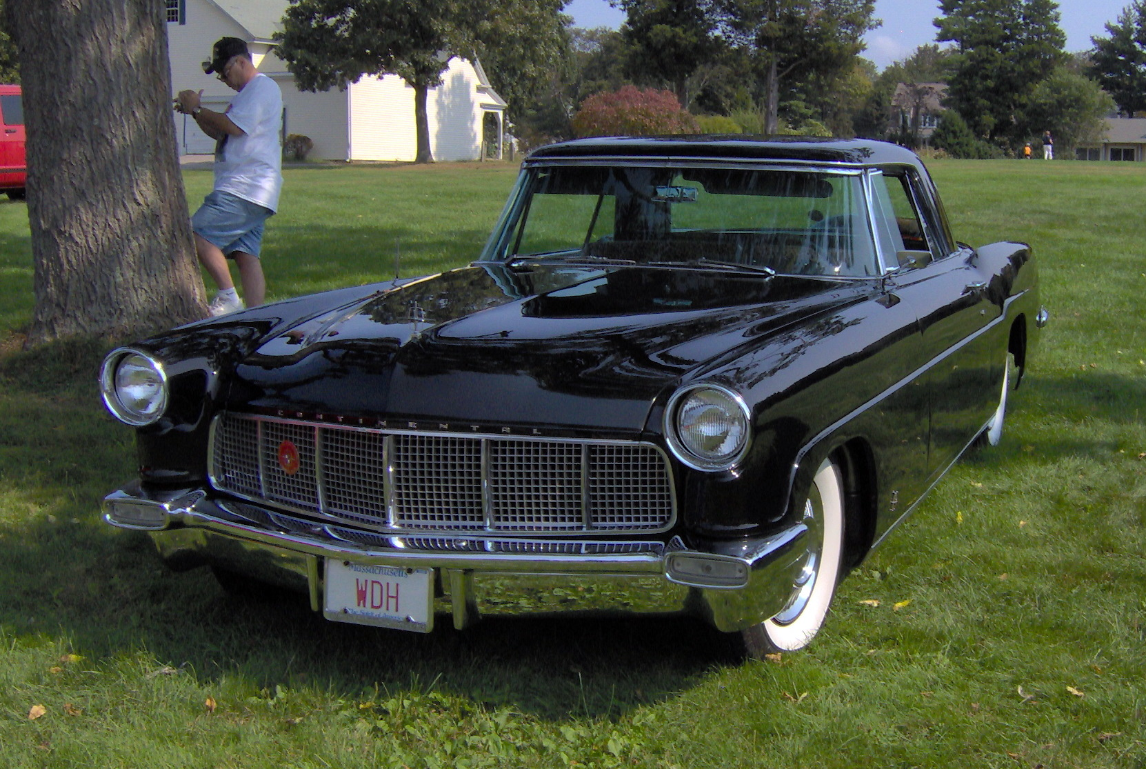 1956 Continental Mark II